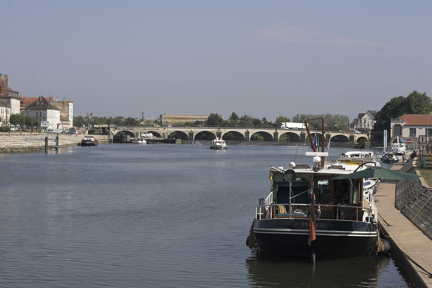 the river Saône, as seen from the quai of Gray